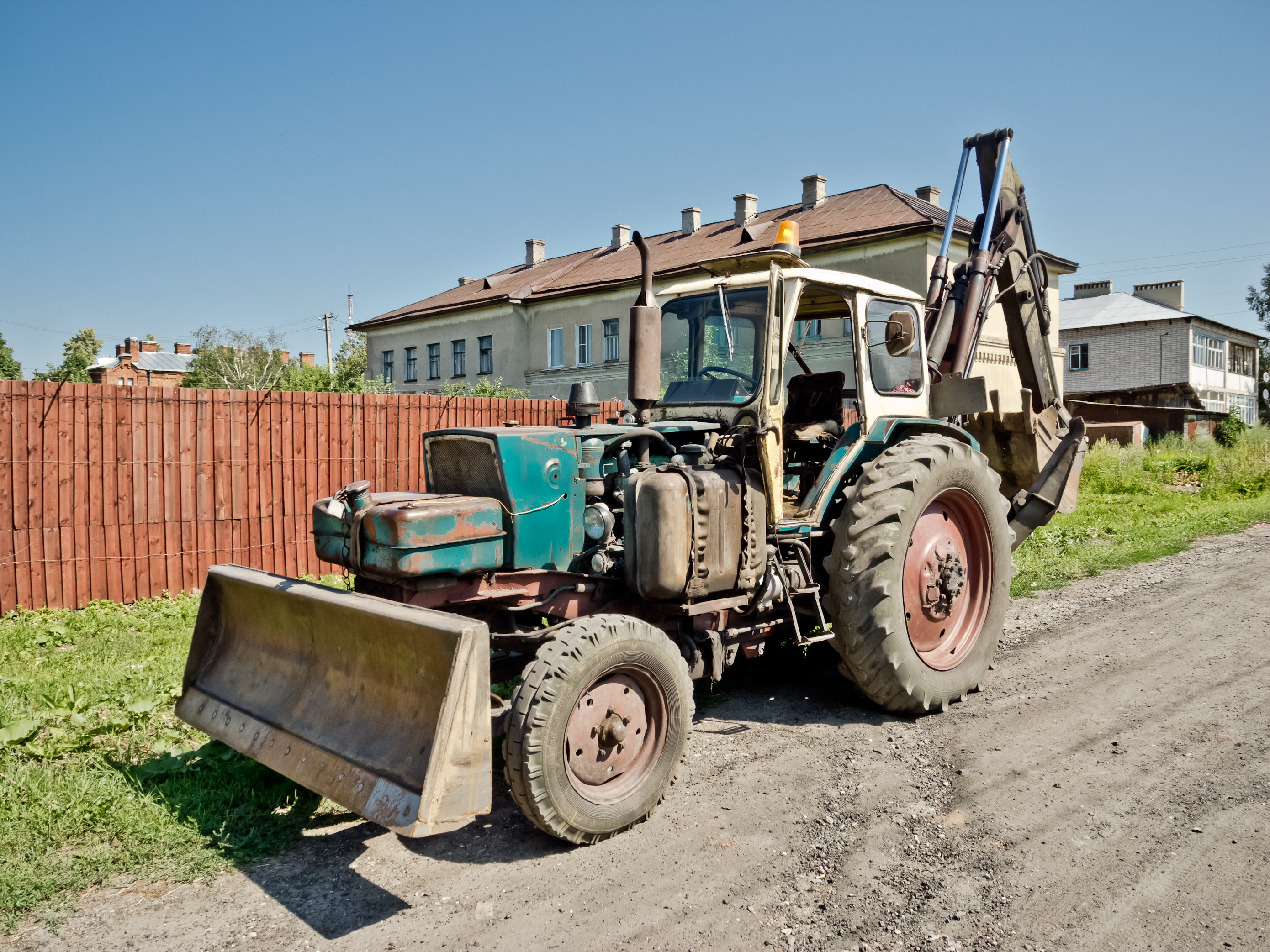 Tractor EO-2621A in Galich, Russia